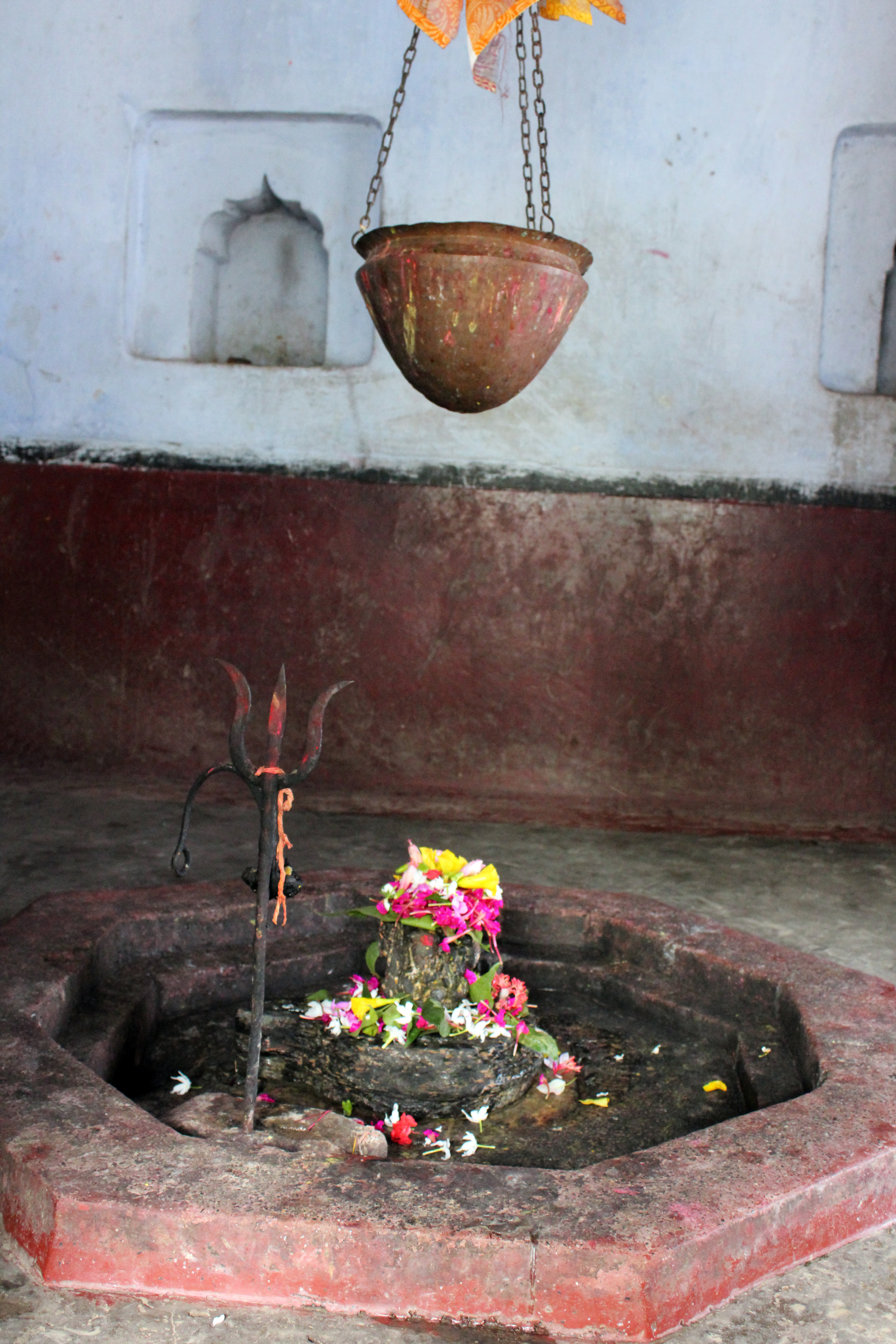 Shiva Lingam in the temple of Lord Shiva Rajbiraj